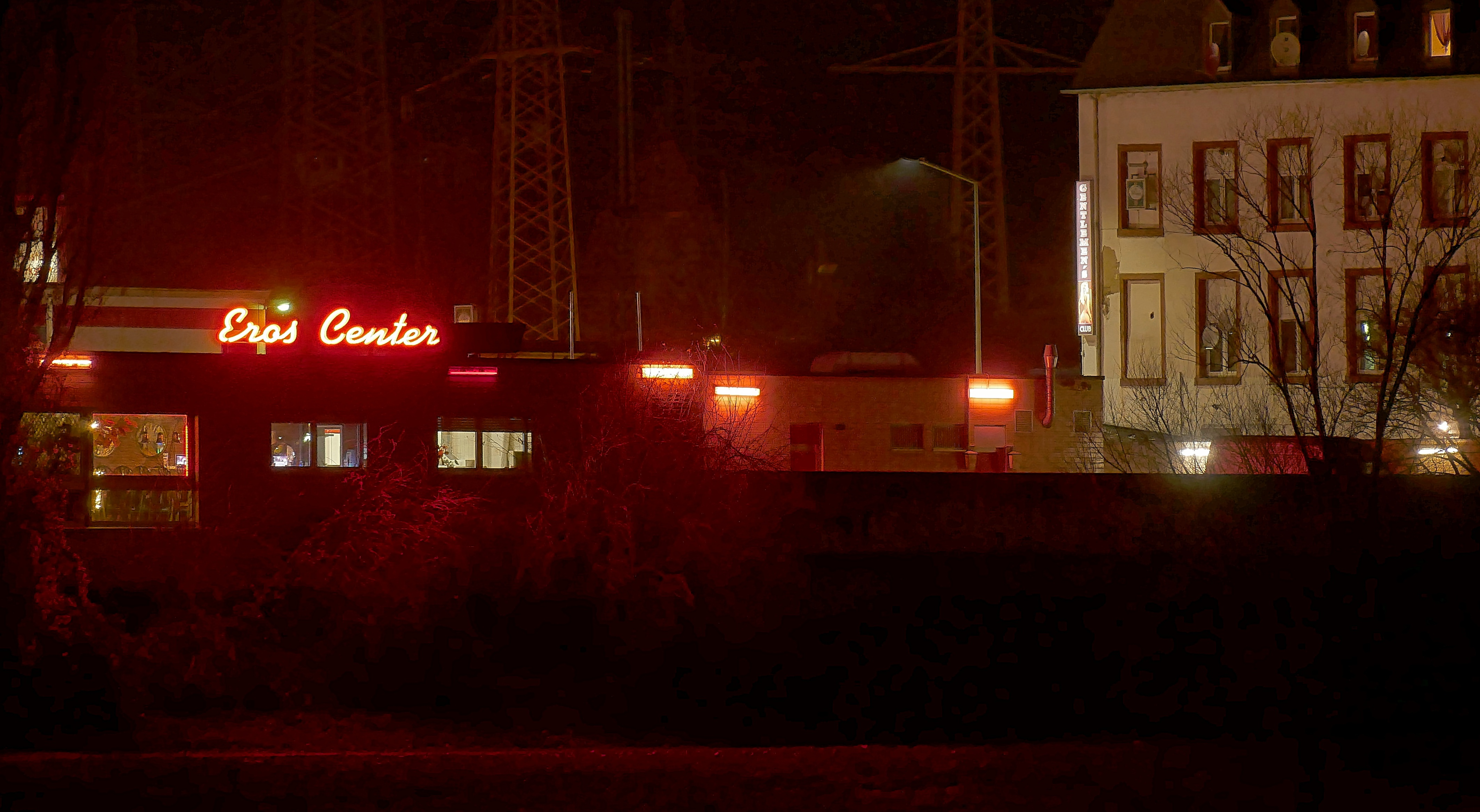 Night shot over the river Mosel. Brothels Eros-Center (on the left) and Gentlemen's (on the right)